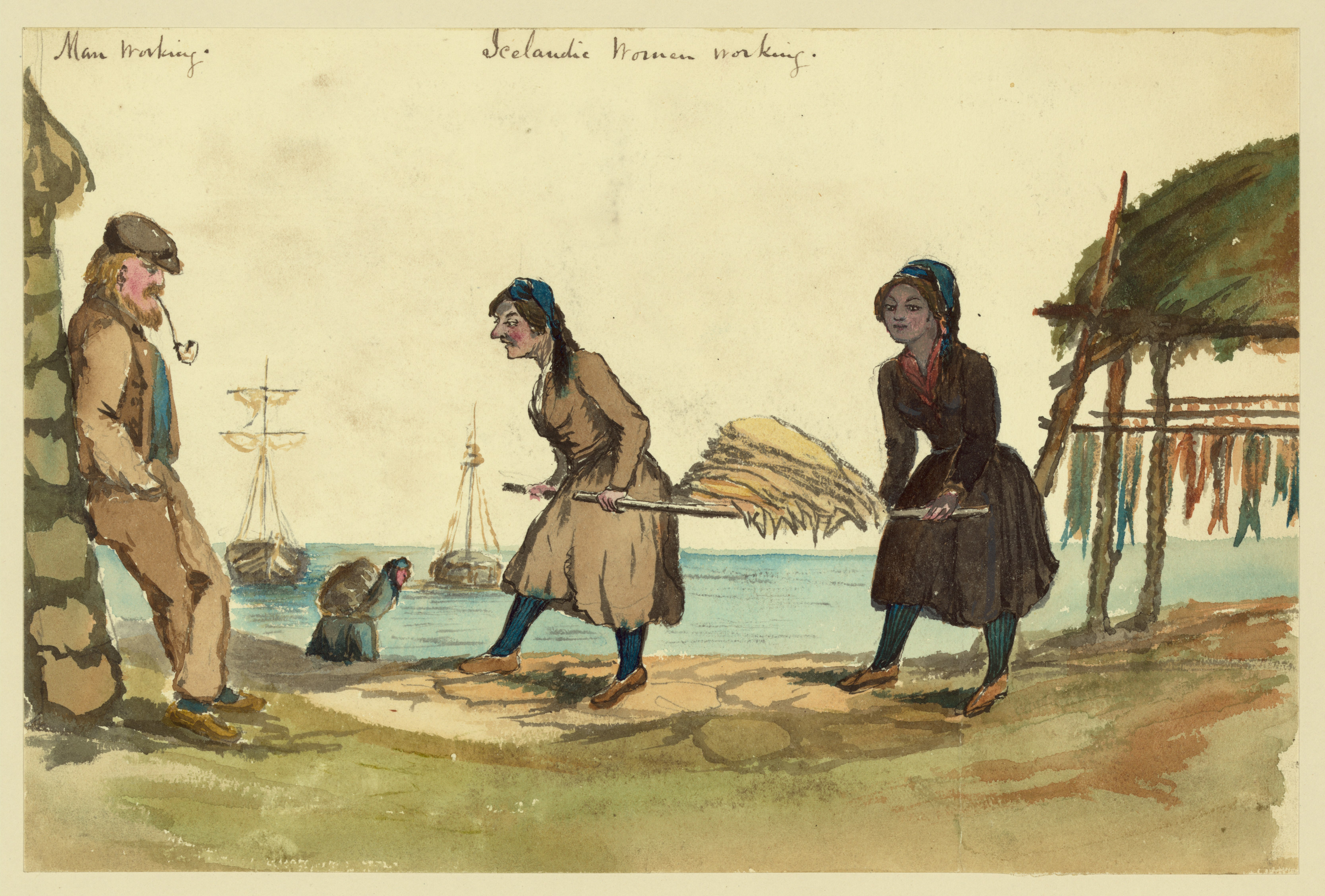 Title: Man working - Icelandic women working Abstract/medium: 1 drawing : ink brush and watercolor over graphite underdrawing.